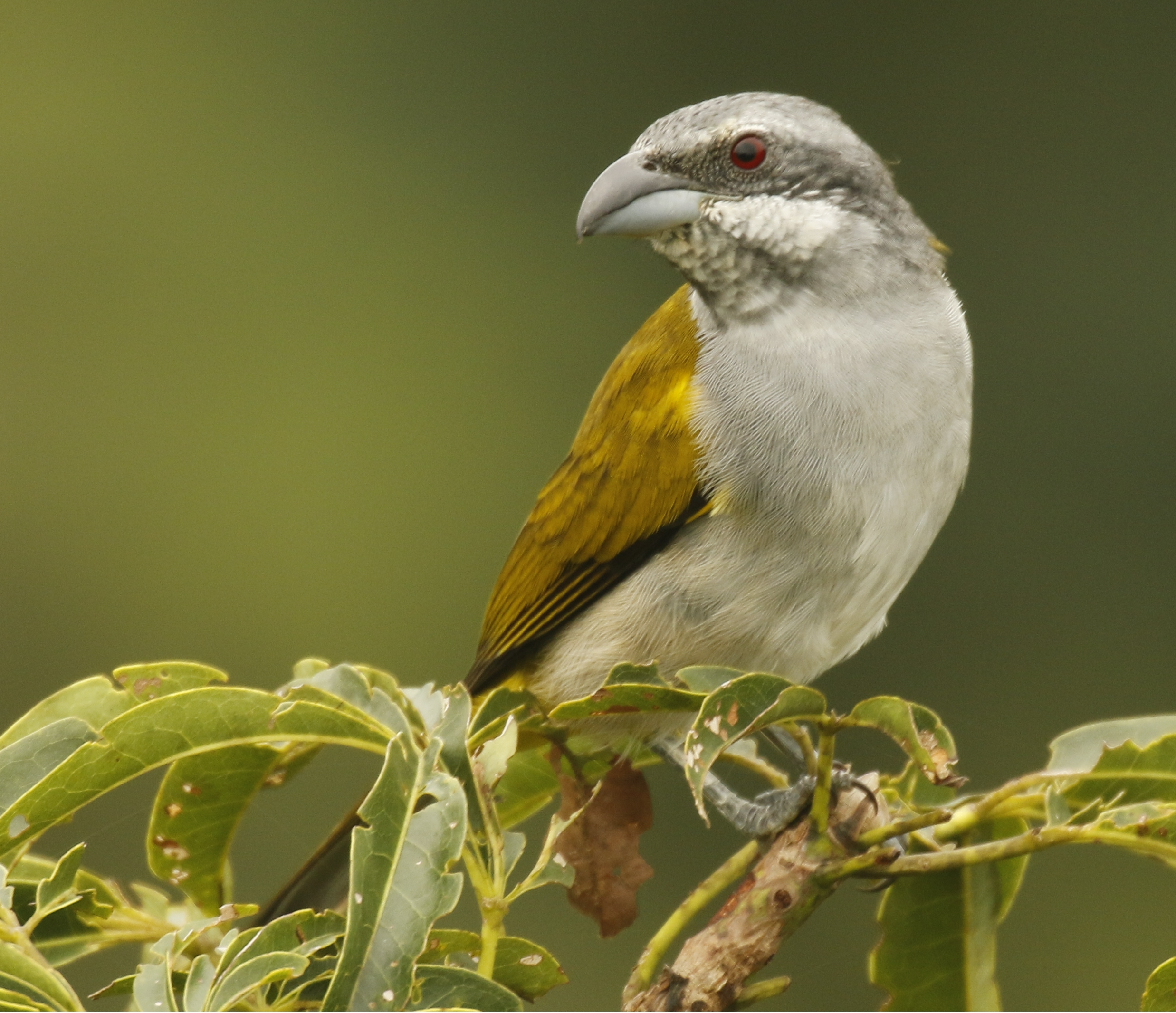 Yasuni Nat’l Park - Ecuador